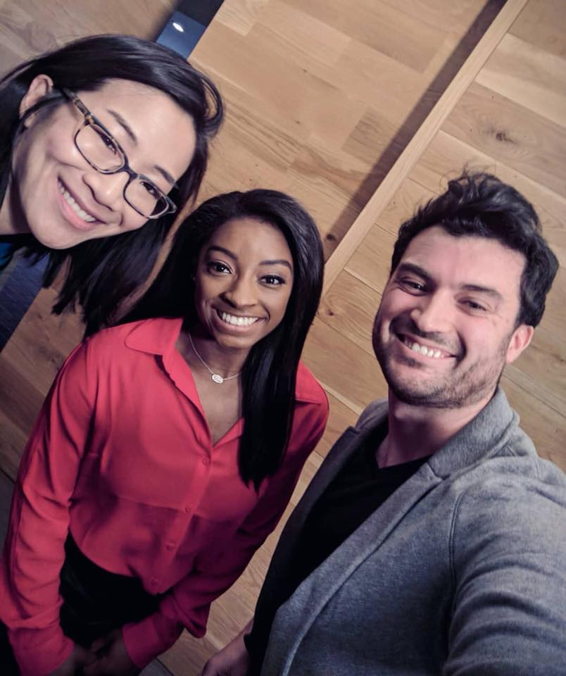 Olympic champion gymnast Simone Biles (in red) of the USA with VOA’s Ramon Taylor.